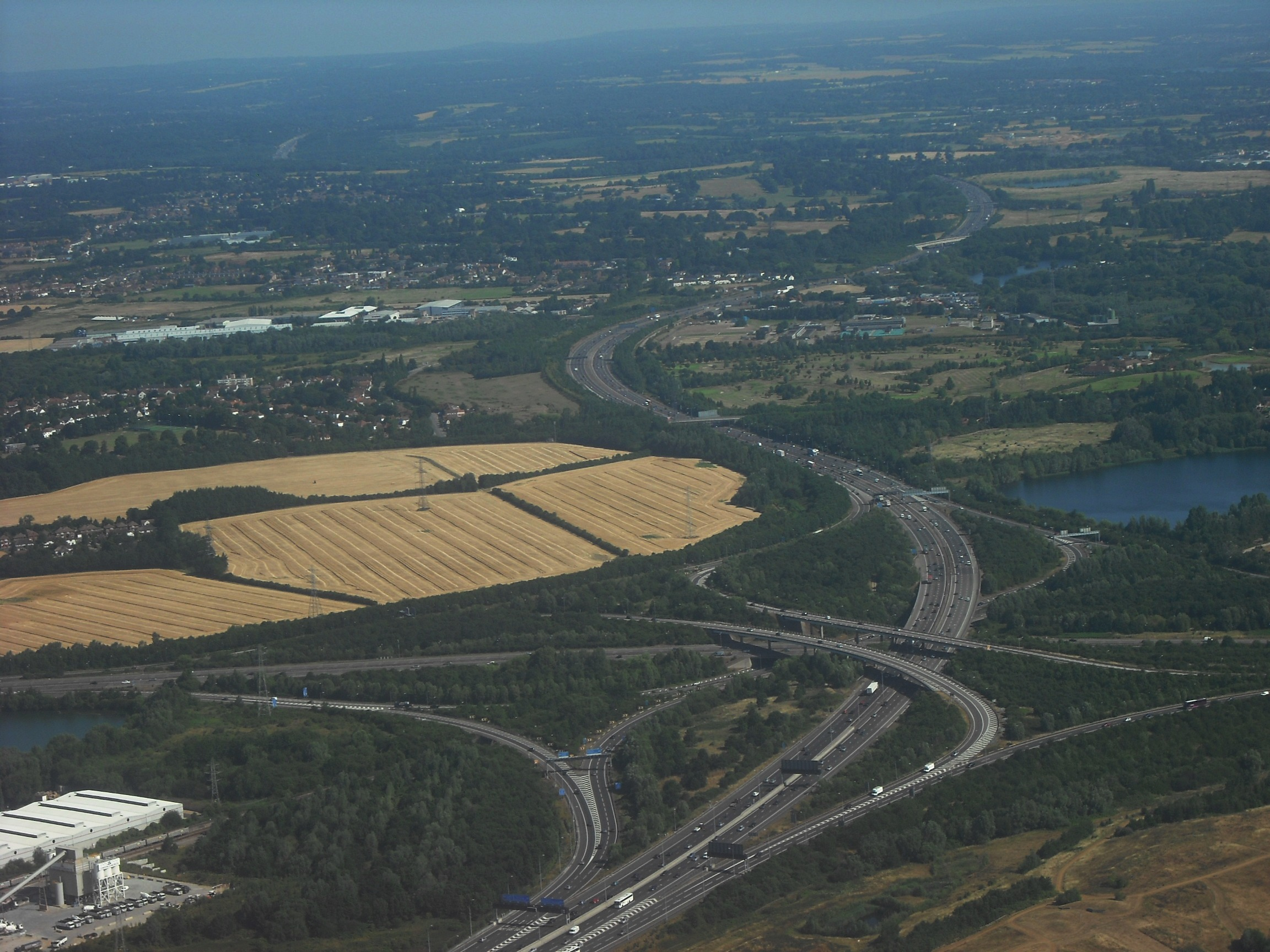 A view of the M4/M25 motorway junction, viewed from a flight departing from the nearby Heathrow Airport, looking north.